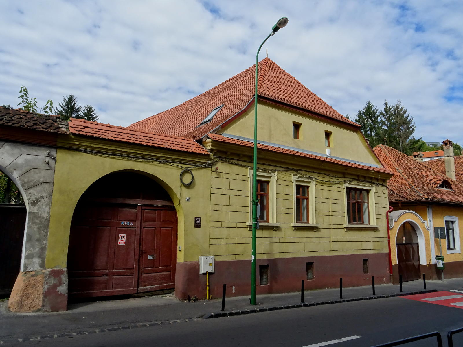 House on Brâncoveanu street (Brasov, Romania), number 36